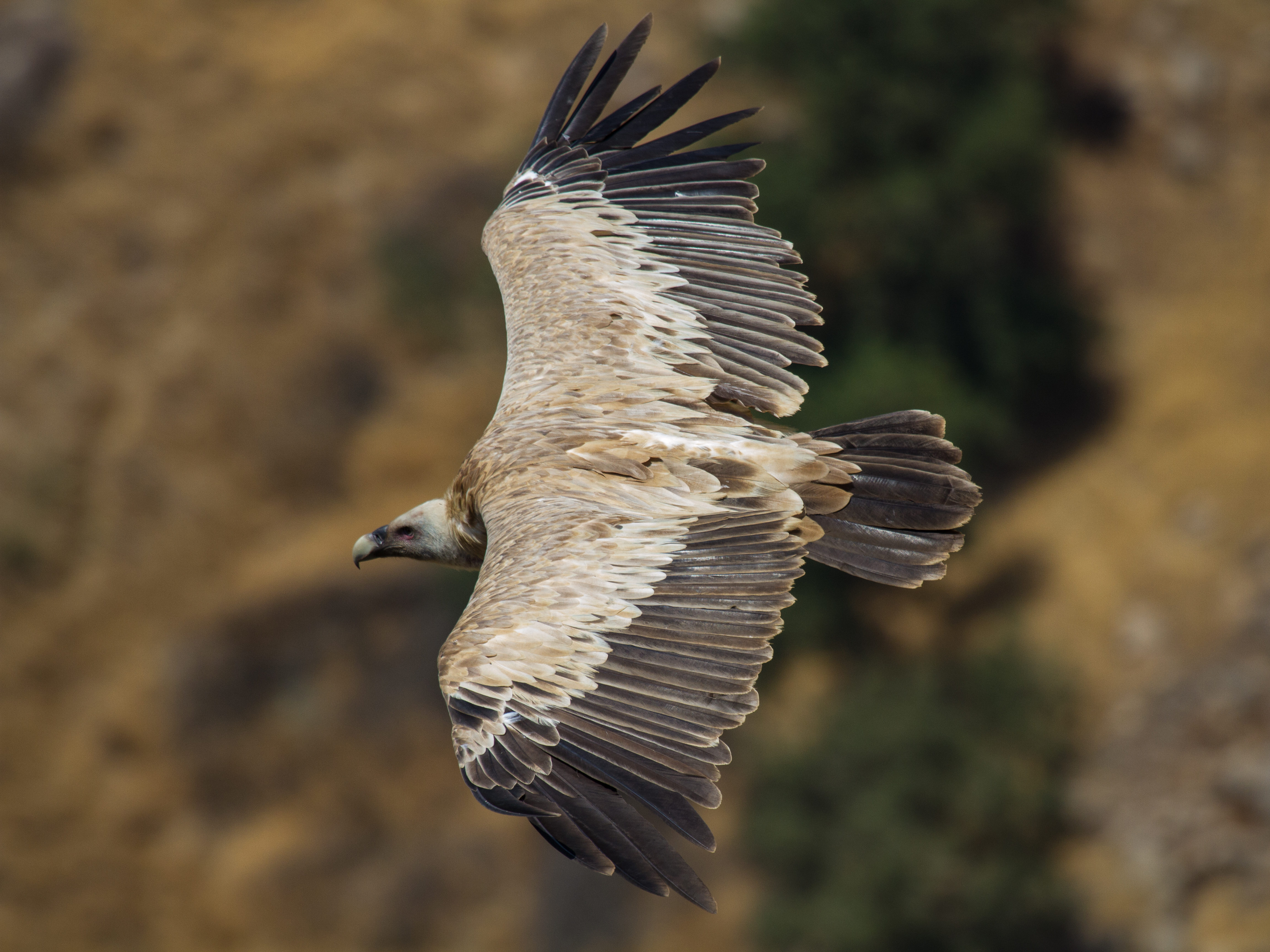 Griffon vulture (gyps fulvus) in flight at Gamla nature reserve